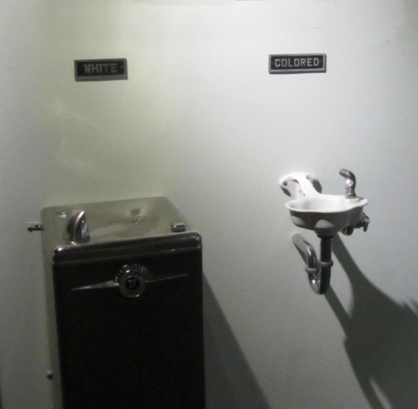 Water fountains for whites and colored people, exhibited in the Levine Museum of the New South, photographed on September 24, 2011, in North Carolina in the United States, by Flickr user David Wilson. Image cropped to remove a photograph which was on the wall above the water fountains, due to not being certain whether that photograph could be included in what was uploaded here, rights-wise.